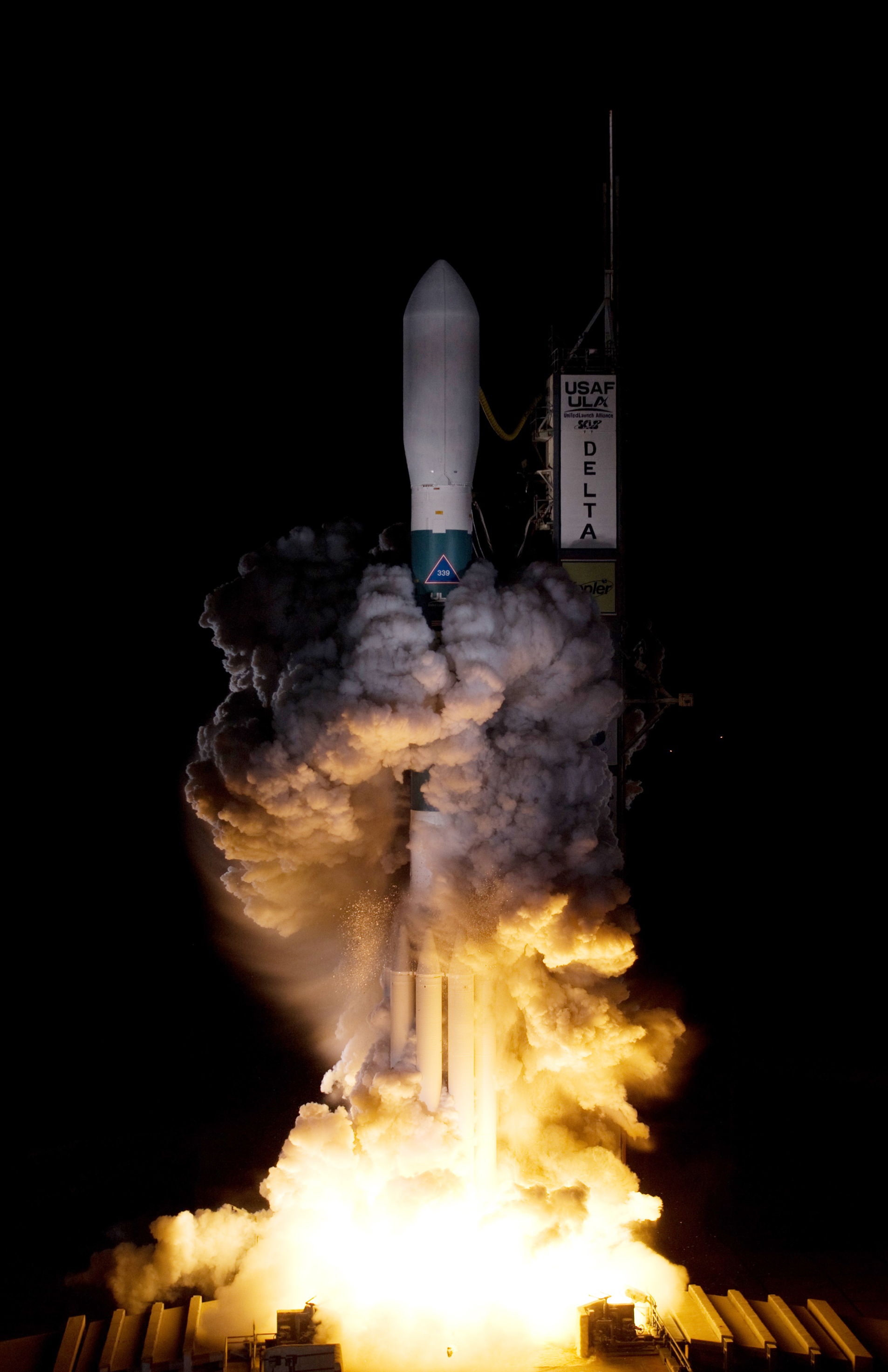 CAPE CANAVERAL, Fla. – On Launch Pad 17-B at Cape Canaveral Air Force Station in Florida, United Launch Alliance's Delta II rocket carrying NASA's Kepler spacecraft rises through the exhaust cloud created by the firing of the rocket’s engines. Liftoff was on time at 10:49 p.m. EST. Kepler is a spaceborne telescope designed to search the nearby region of our galaxy for Earth-size planets orbiting in the habitable zone of stars like our sun. The habitable zone is the region around a star where temperatures permit water to be liquid on a planet's surface. The challenge for Kepler is to look at a large number of stars in order to statistically estimate the total number of Earth-size planets orbiting sun-like stars in the habitable zone. Kepler will survey more than 100,000 stars in our galaxy. Photo credit: NASA/Regina Mitchell-Ryall, Tom Farrar.